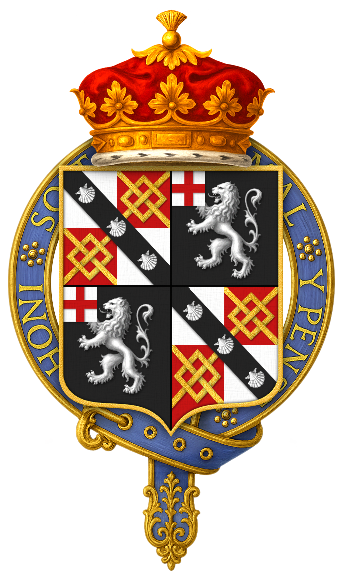 Coat of arms of George Spencer, 4th Duke of Marlborough, KG, PC, FRS